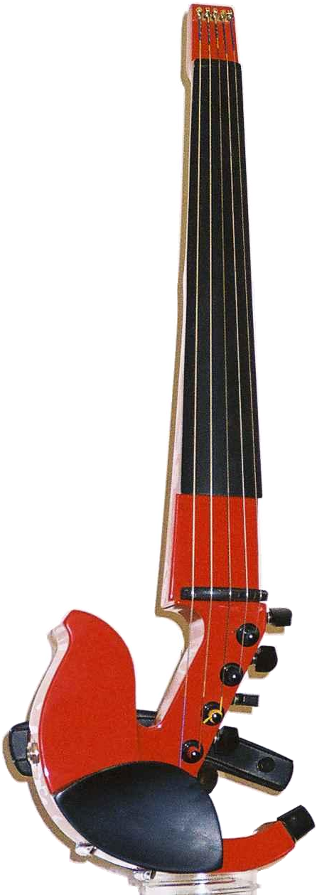 A five string electric violin.